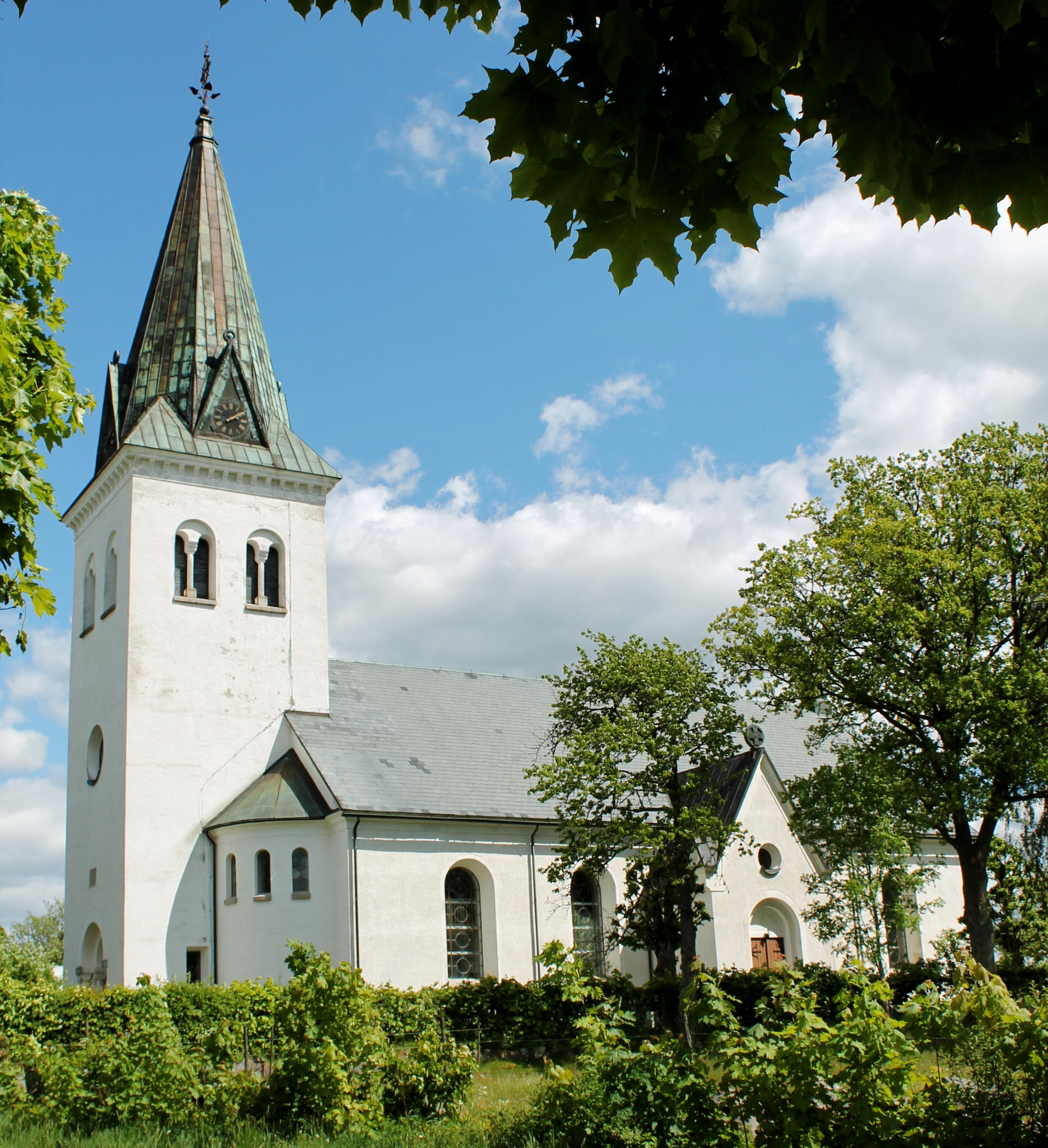 Furuby Church. The Church was built by architect Herman Holmgren. it is built of hewn stone and is characterized by historiserande among the style of both Romanesque and Gothic Revival elements. construction work began in 1887 and 1888 the Church was inaugurated.